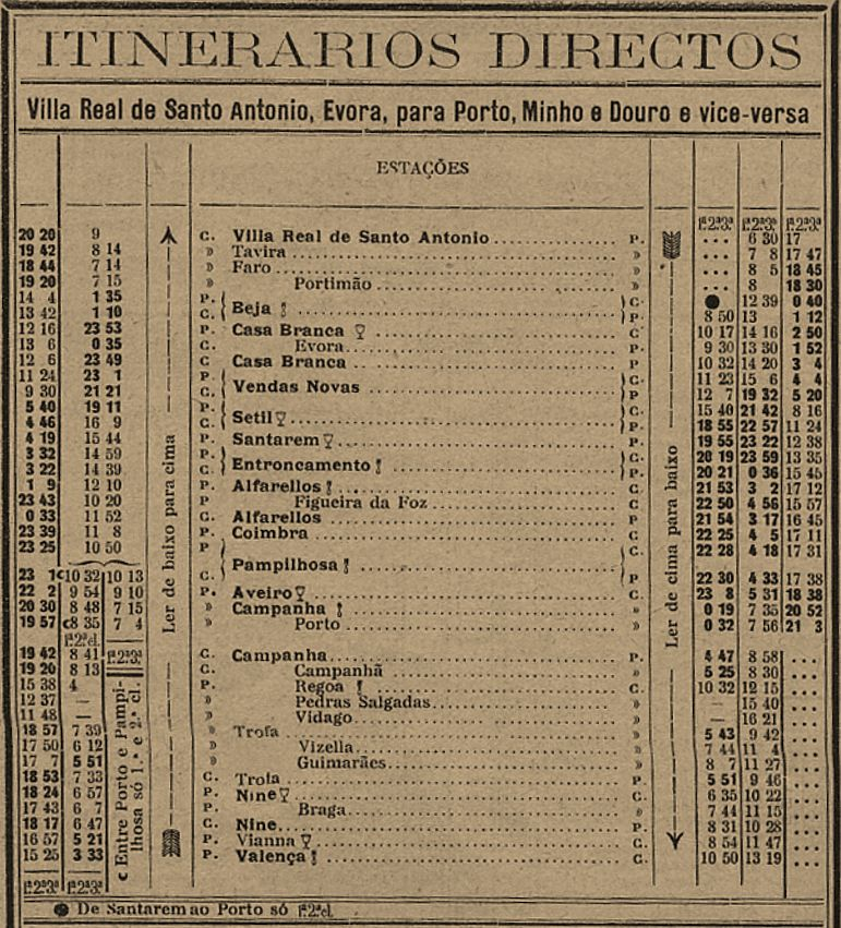 1913 timetable for the trains from Vila Real de Santo António to Porto and then to Valença, in Portugal. Esta imagem foi publicada no Guia Official dos Caminhos de Ferro de Portugal n.º 168, de Outubro de 1913, e digitalizada pela Biblioteca Nacional de Portugal.